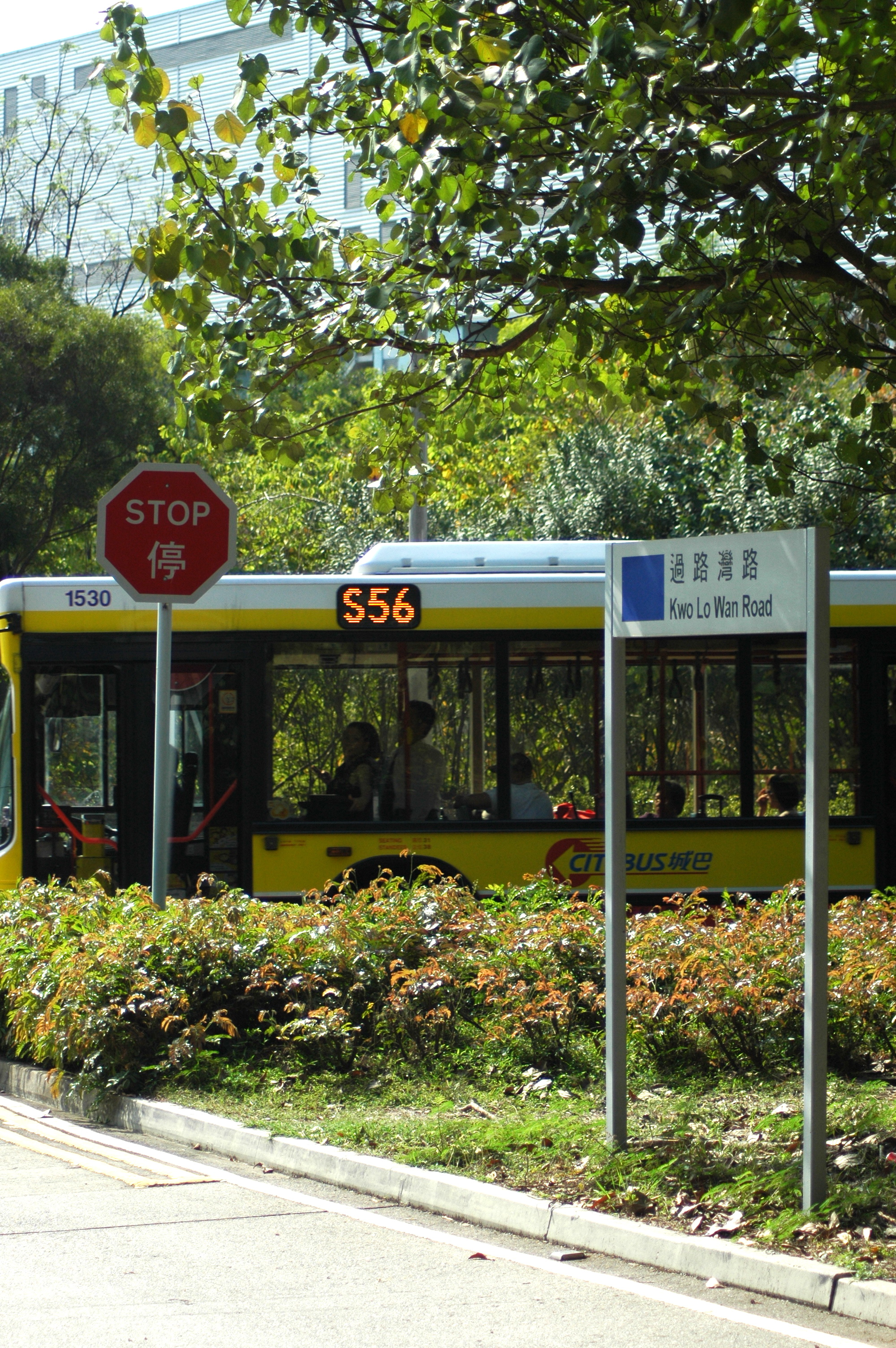 Kwo Lo Wan Road, Chek Lap Kok, Hong Kong.